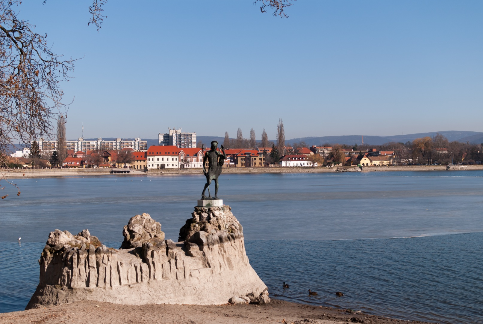 John the Baptist statue in Old Lake (Öreg-tó)